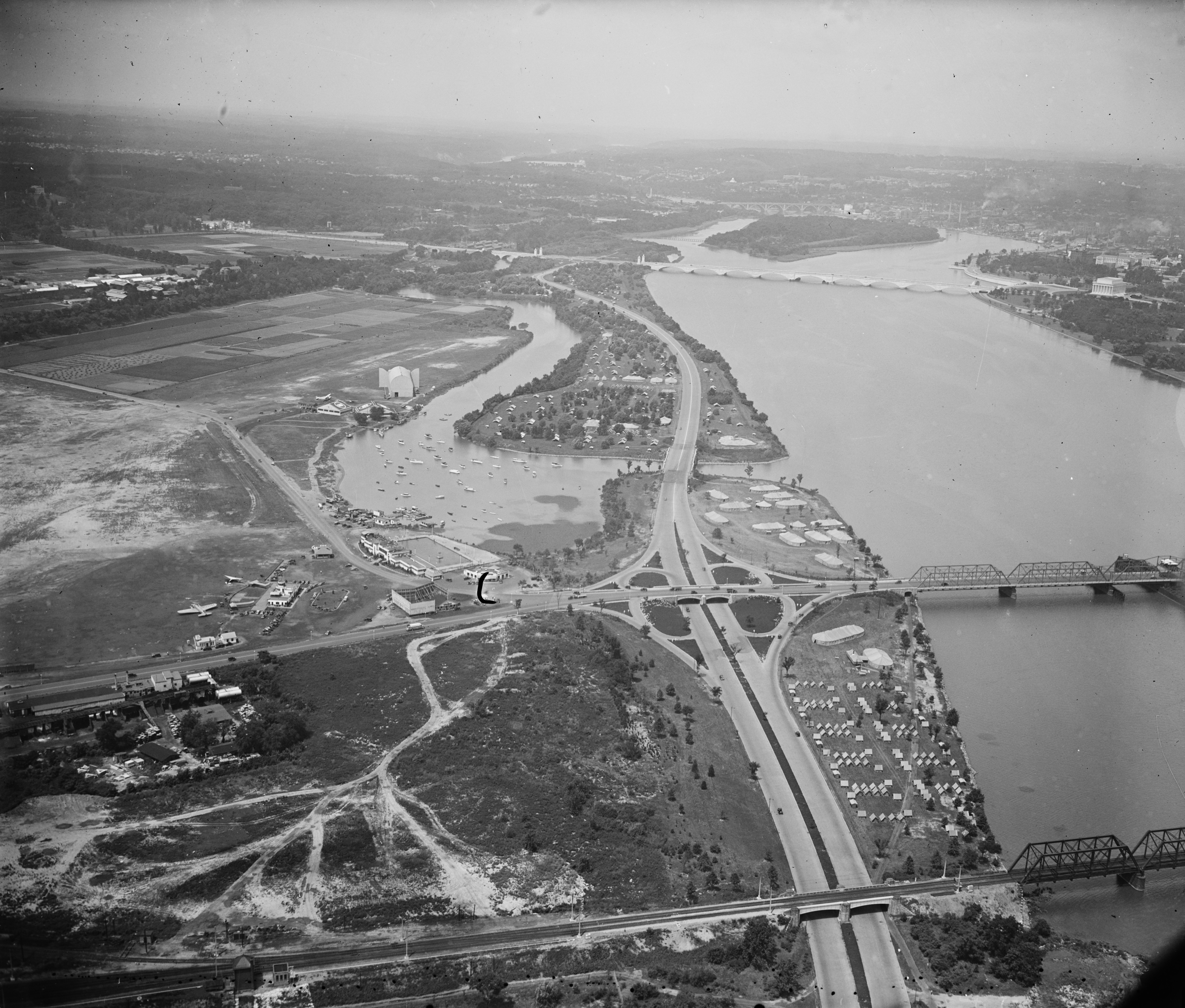 Original title: No scouts here. This airview shows a portion of the tent city erected along the banks of the Potomac river where the Boy Scouts were scheduled to hold their Jamboree late this month. It was postponed by President Roosevelt for a year because of infantile